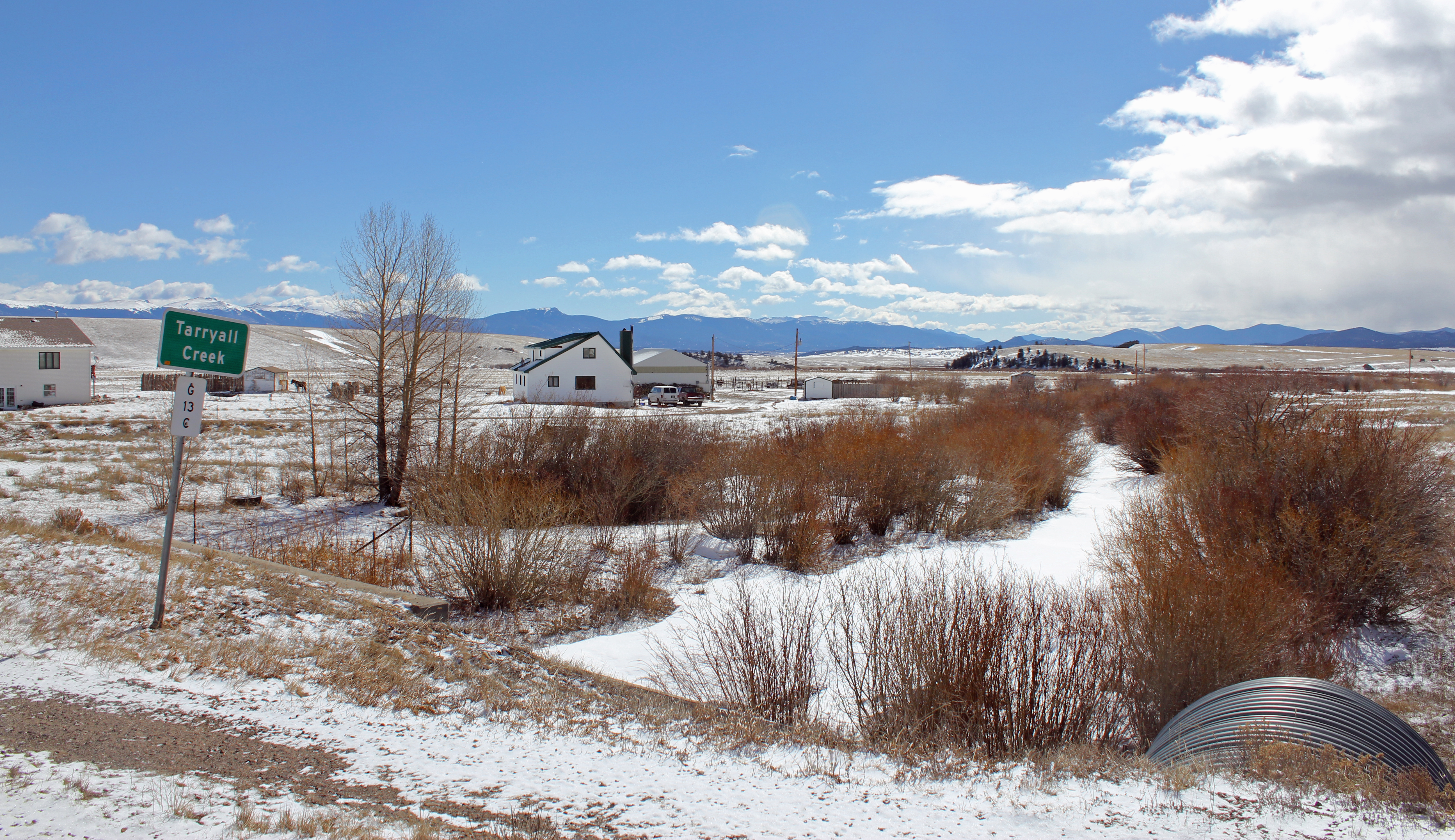 Tarryall Creek in Park County, Colorado. The picture was taken from the side of U.S. Route 285.